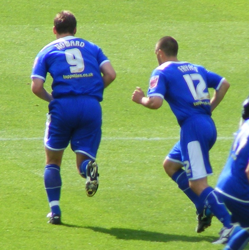 Steve Howard and Matty Fryatt. Image cropped from original at Flickr.